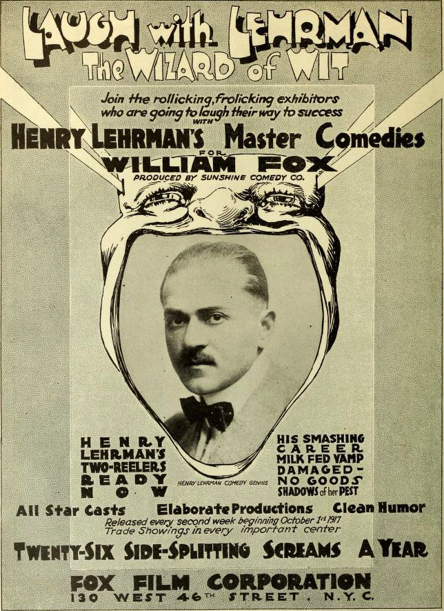 Advertisement in Moving Picture World, August 1917 with Henry Lehrman